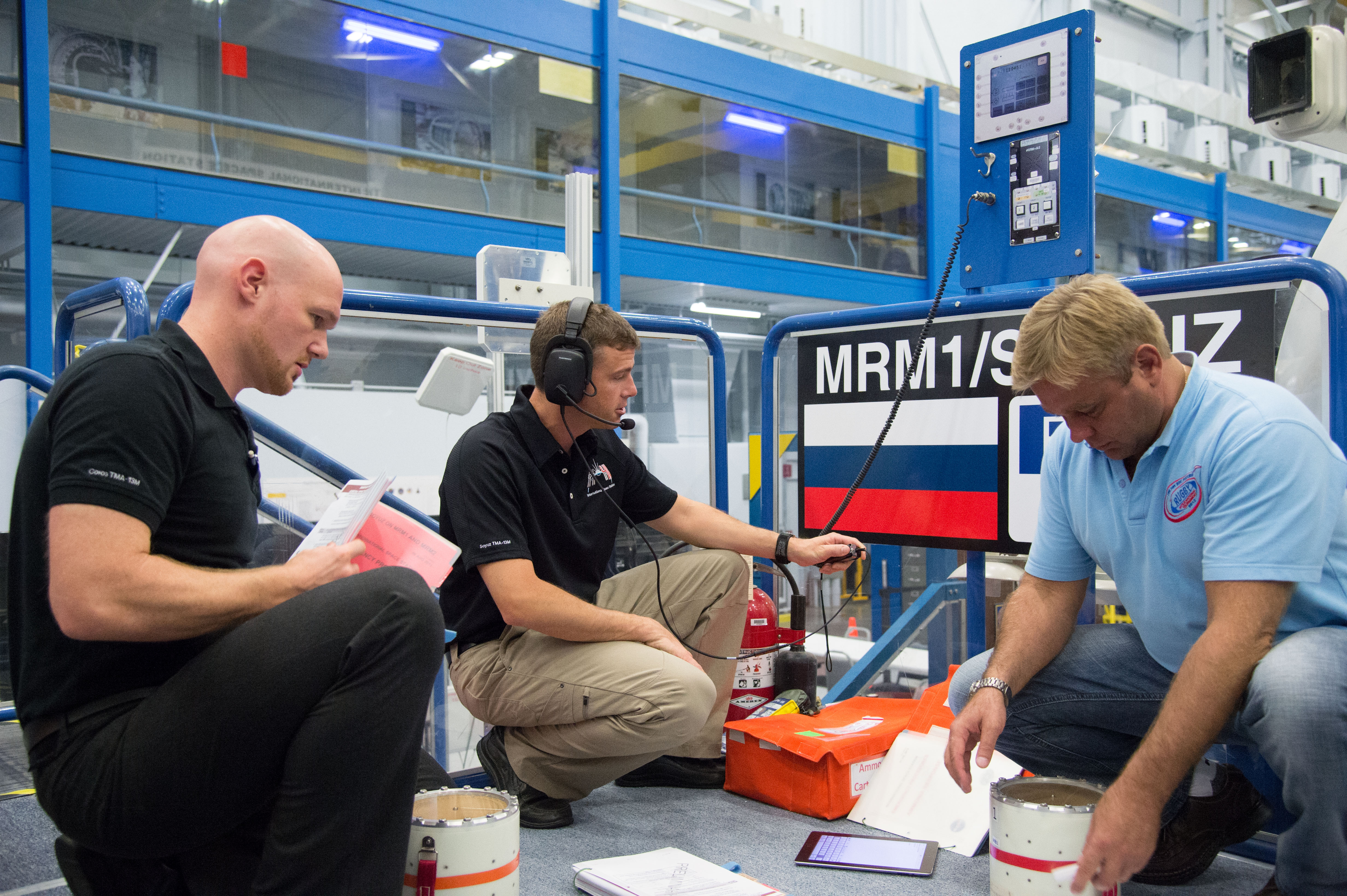 Russian cosmonaut Maxim Suraev (right), Expedition 40 flight engineer and Expedition 41 commander; along with NASA astronaut Reid Wiseman (center) and European Space Agency astronaut Alexander Gerst, both Expedition 40/41 flight engineers, participate in an emergency scenario training session in the Space Vehicle Mock-up Facility at NASA's Johnson Space Center.